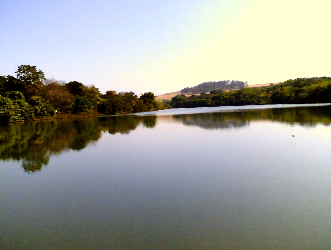 Dam and lake at the Ribeirão Preto main campus of the University of São Paulo, Brazil. Photo by Renato M.E. Sabbatini on June 18, 2007. Uploaded and permitted by the author.